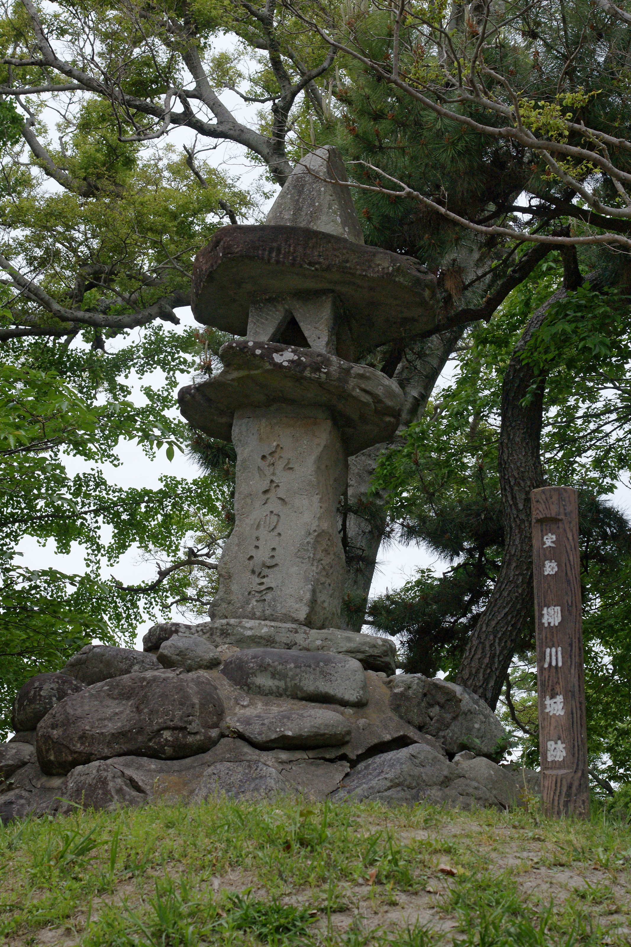 Yanagawa, Fukuoka prefecture, Japan